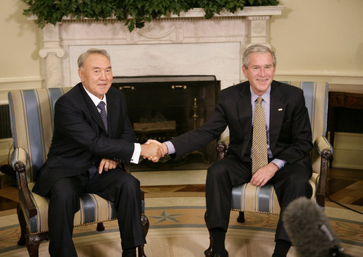 President George W. Bush and Kazakhstan President Nursultan Nazarbayev shake hands during their meeting Friday, Sept. 29, 2006 in the Oval Office at the White House.